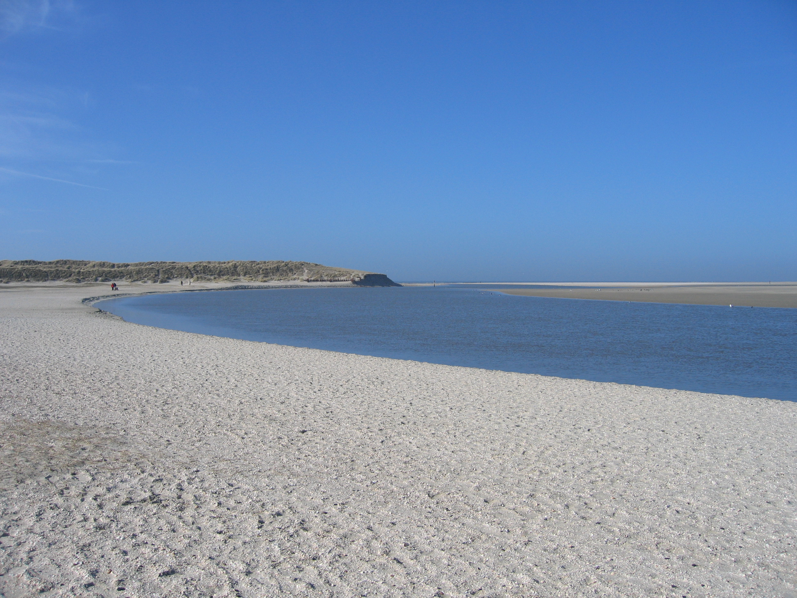 Central inlet in De Slufter on the dutch island Texel.